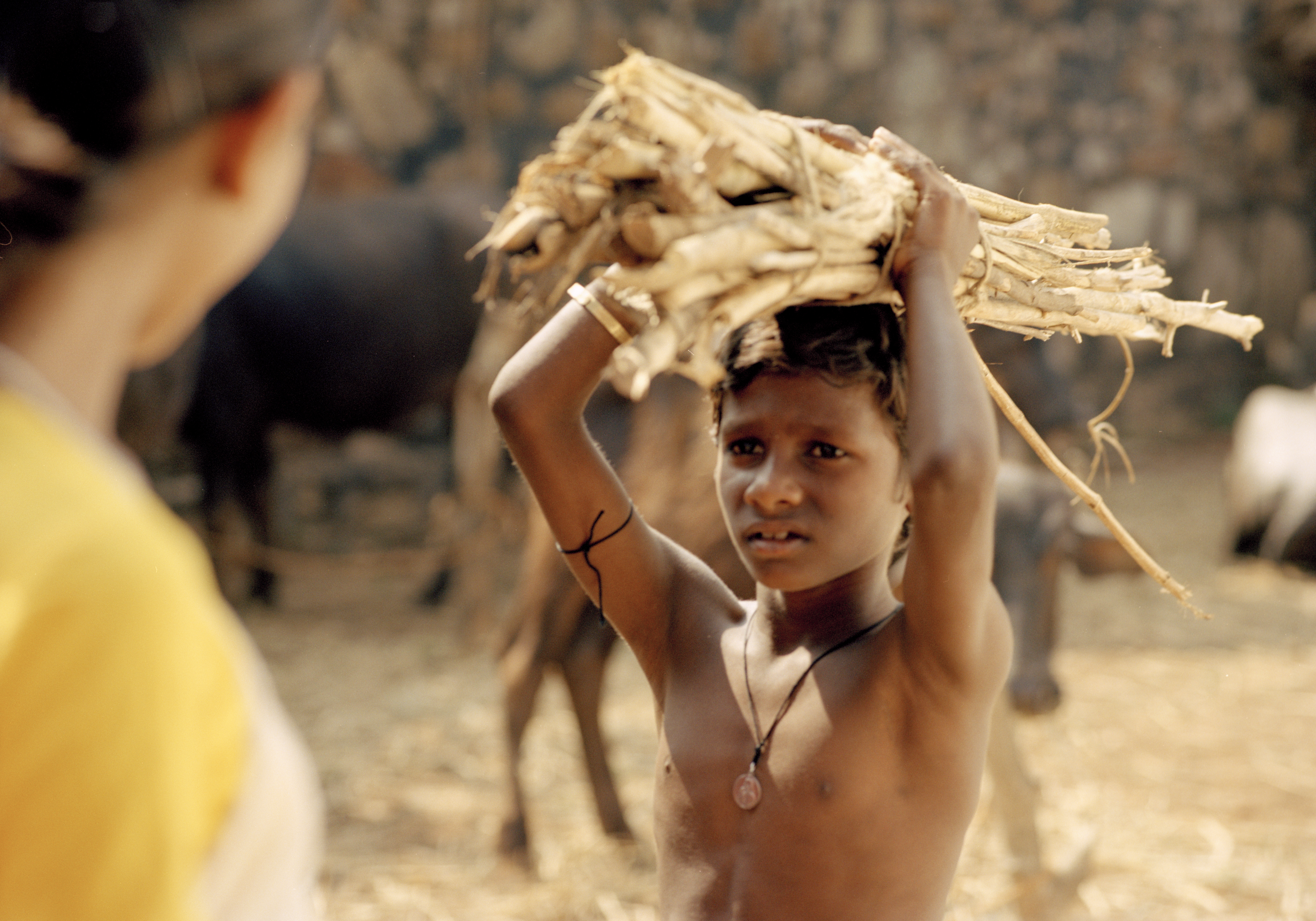 Vanaja, played by Mamatha Bhukya in the 2006 Telugu language feature film Vanaja, is a servant in the house of a rich landlady. Here, Yadigiri (a farmhand, played by Prabhu Garlapati) confronts her when she hangs her clothes on the landlady’s line.The film was written, directed and edited by Rajnesh Domalpalli for his MFA Thesis at Columbia University.